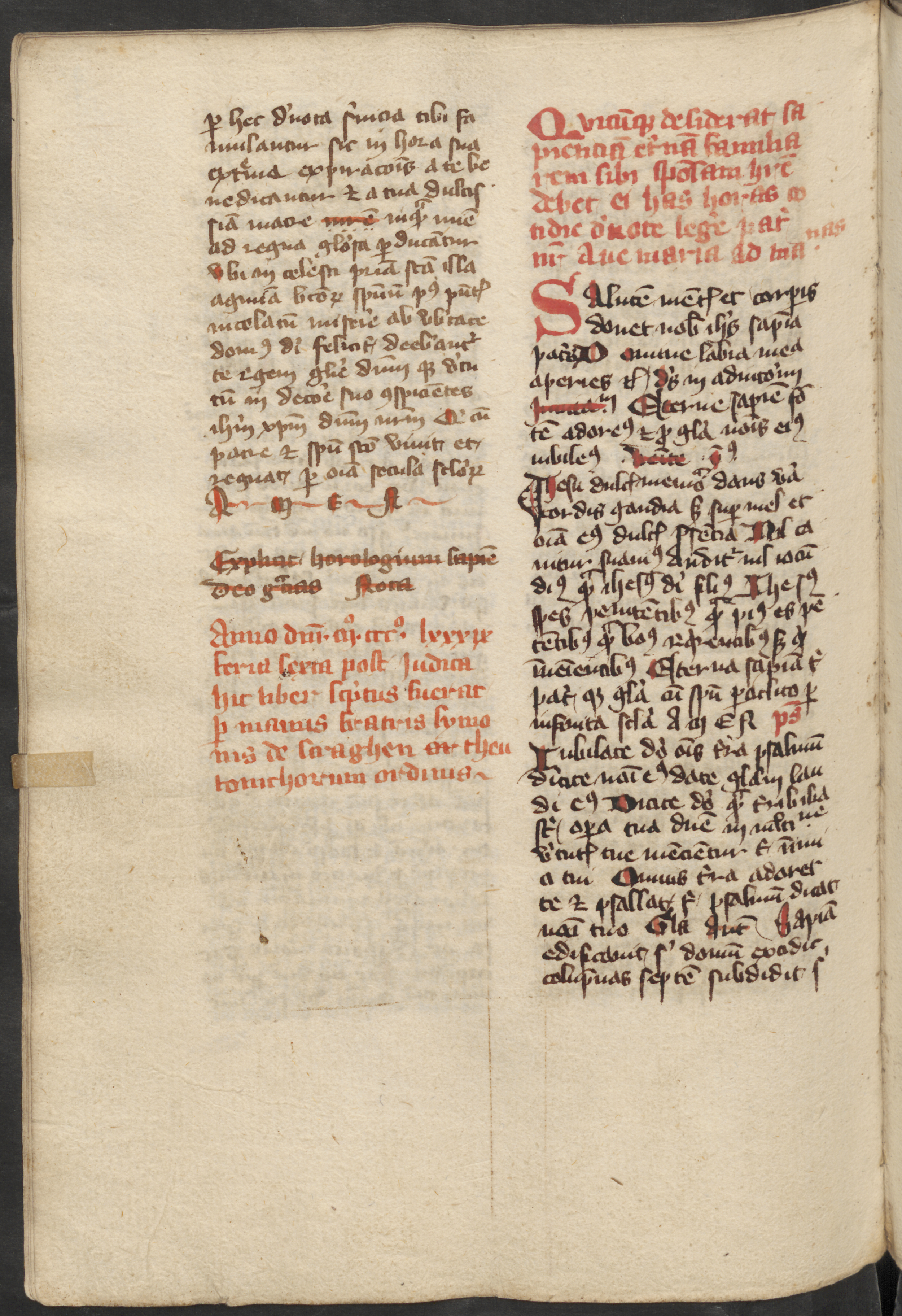 Ms.290, fol. 92v.